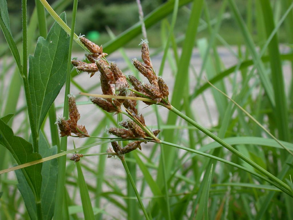 Name Fimbristylis dichotoma (L.) var. tentsuki T. Koyama （チカラシバ） Family Poaceae Date;2005,09;Sirahama town, Wakayama prefecture, Japan Author;Keisotyo